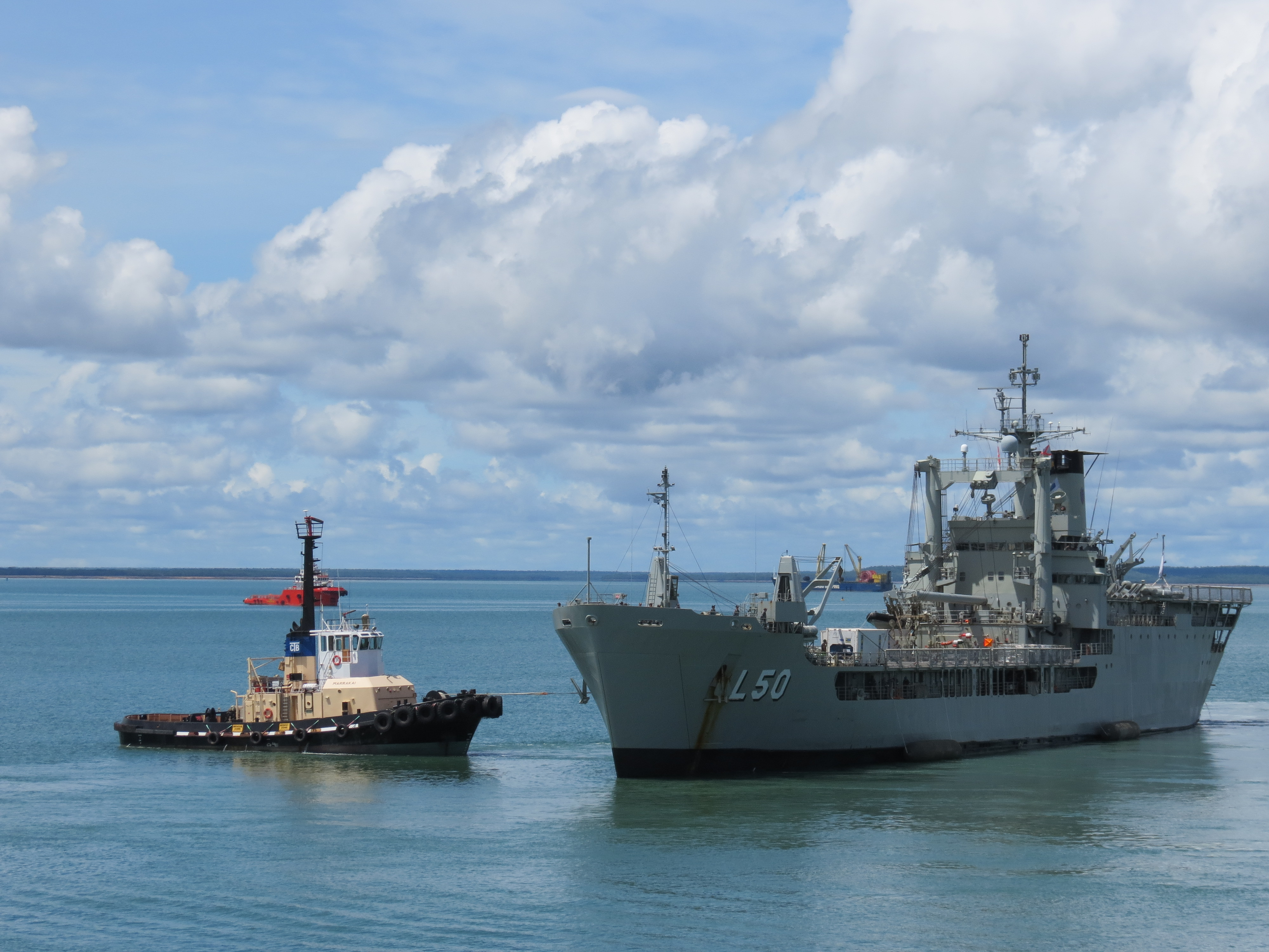 Assisted by the CTB tugs Wyong and Marrakai the landing ship L50 HMAS Tobruk departs Darwin's Fort Hill Wharf. Marrakai takes up the strain to move Tobruk clear of the wharf.